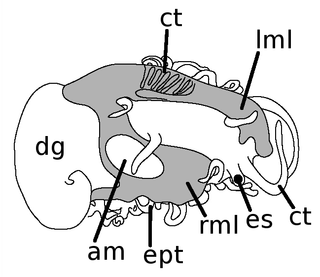 A drawing of anatomy of juvenile 5 mm long Haliotis asinina with the shell removed. The gills (g), digestive gland (dg), adductor muscle (am), epipodial tentacles (ept), right mantle lobe (rml), eyespot (es), cephalic tentacles (ct) and left mantle lobe (lml) are indicated.